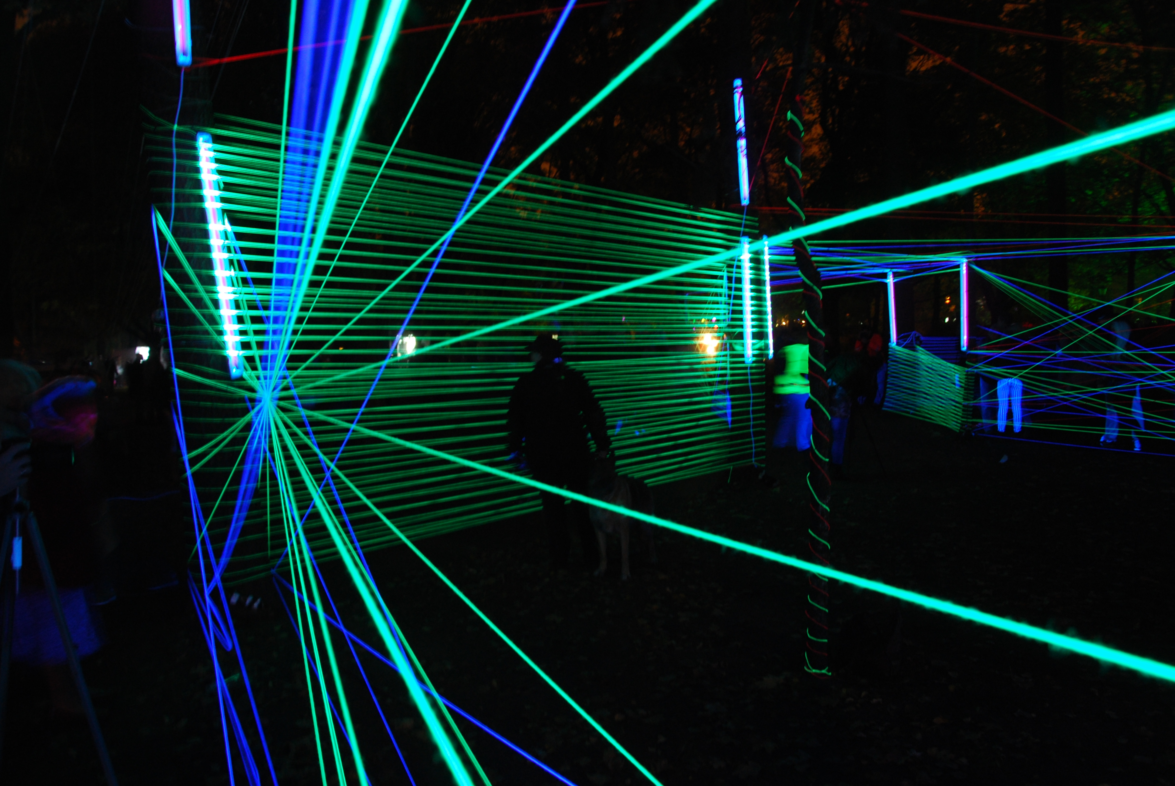 Light Move Festival in Łódź 2013